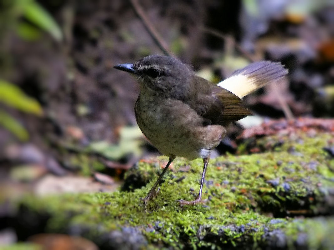 Buff-rumped Warbler at Puentes Colgantes near Arenal, Costa Rica.